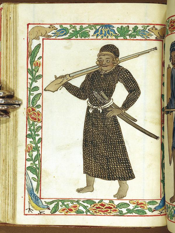 Chinese warrior wielding a gun with sheathed sword